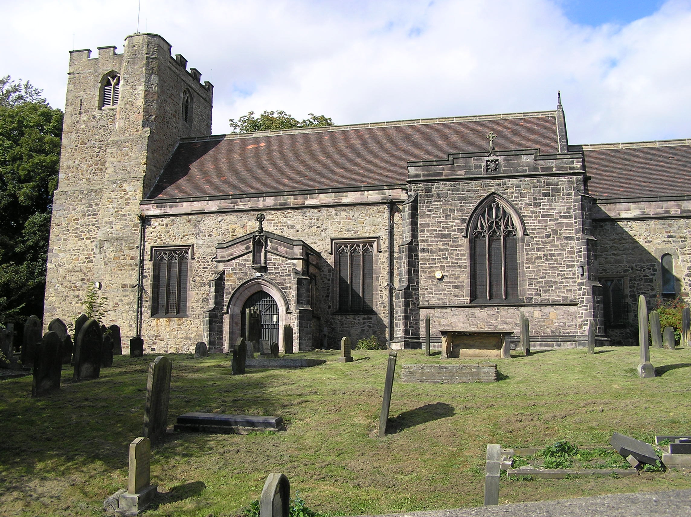 South transept, porch and west tower of St Andrew's parish church, Haughton-le-Skerne, County Durham, England, seen from the south. The transepts were added in 1795.